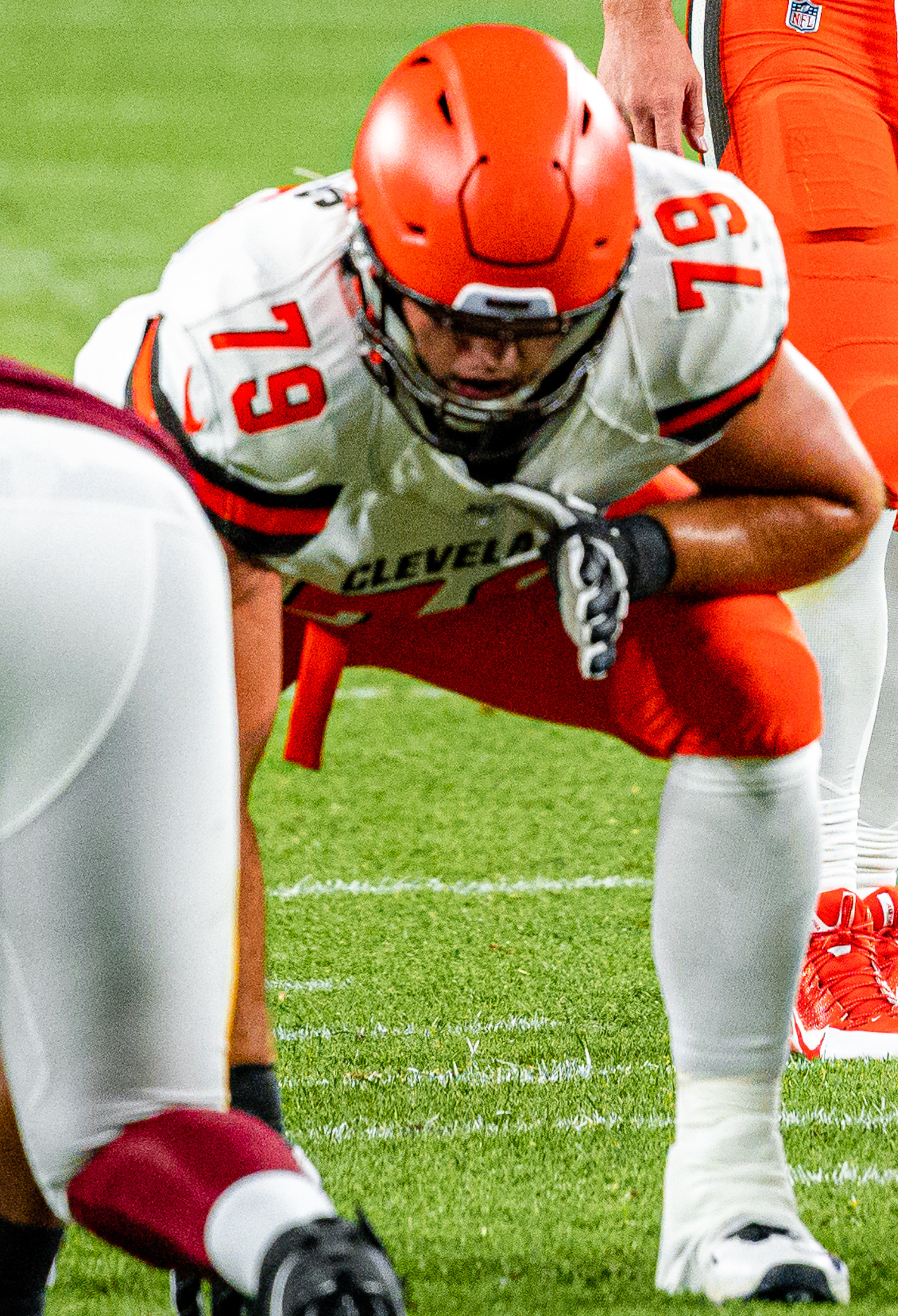 Cleveland Browns quarterback, Garrett Gilbert, during a preseason game against the Washington Redskins on August 8, 2019.